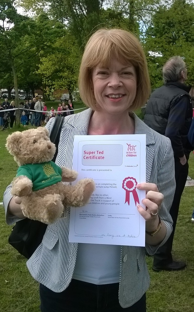 Photo of Wendy Morton, taken by myself this morning.